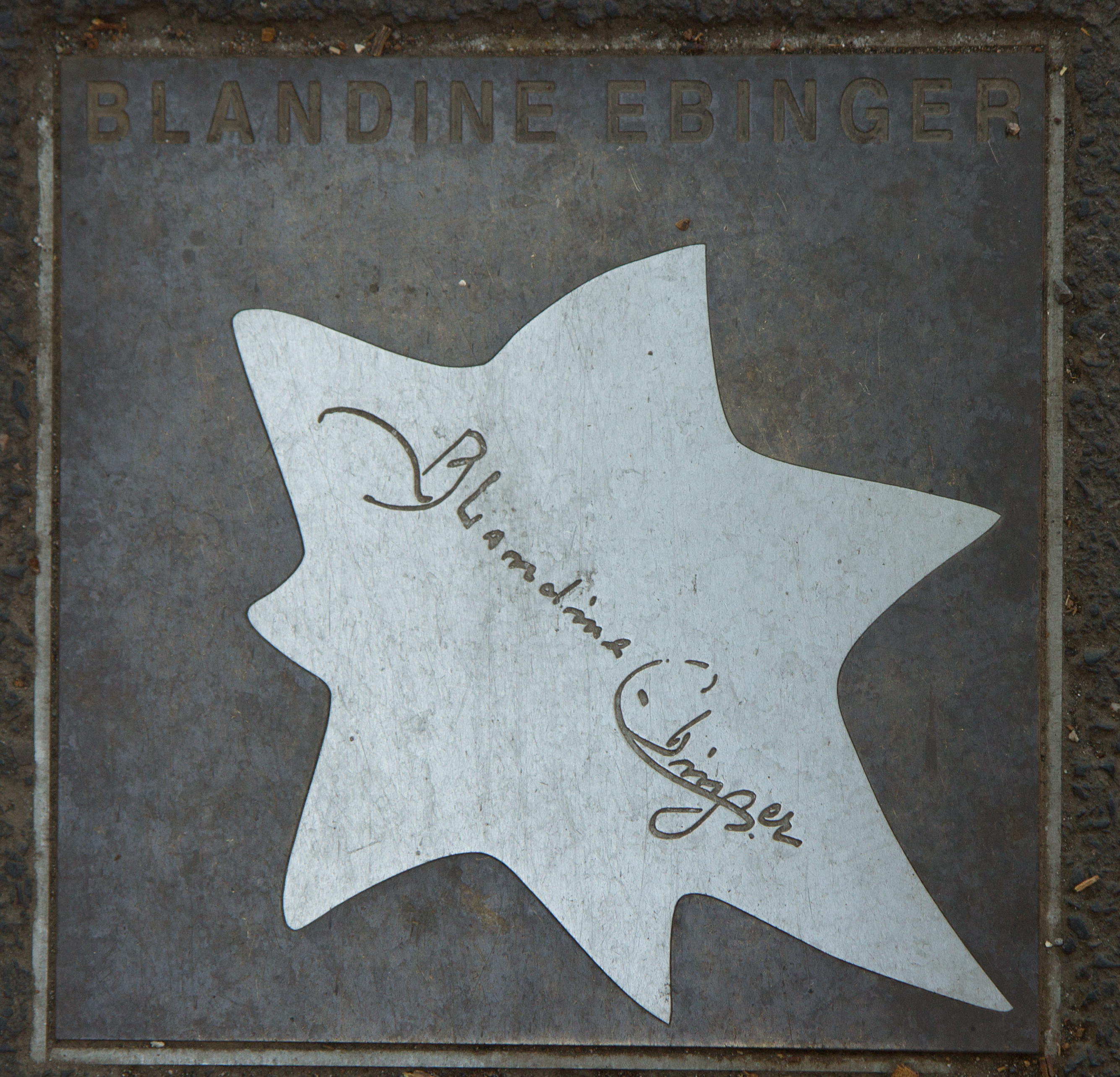 Walk of Fame of Cabaret: Blandine Ebinger